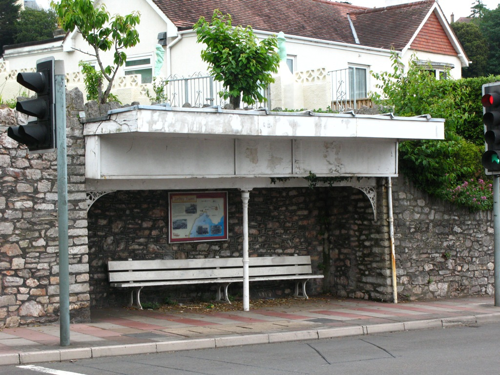 This shelter was the terminus of the Torquay Tramways opposite Torre railway station. It was also used by the buses operated by the tramways company and Deveon General. Becasue it is situated on a busy road junction it has now been closed and replaced by a new one a little nearer the town centre, but a instead contains a display commemorating the Torquay Tramways.